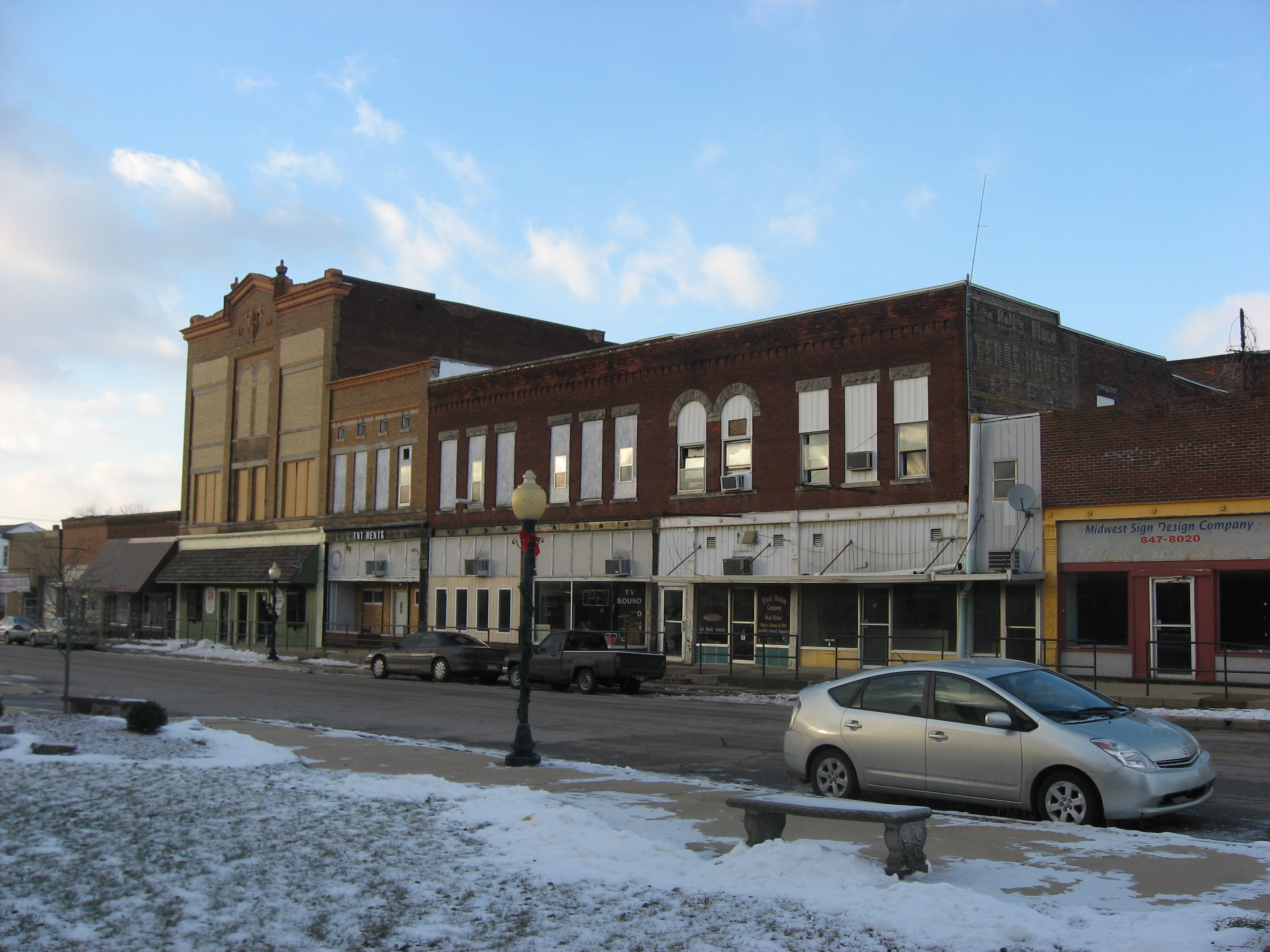 Buildings on the northern side of the 100 block of W. Vincennes Street in downtown Linton, Indiana, United States. These buildings are part of the Linton Commercial Historic District, a historic district that is listed on the National Register of Historic Places.